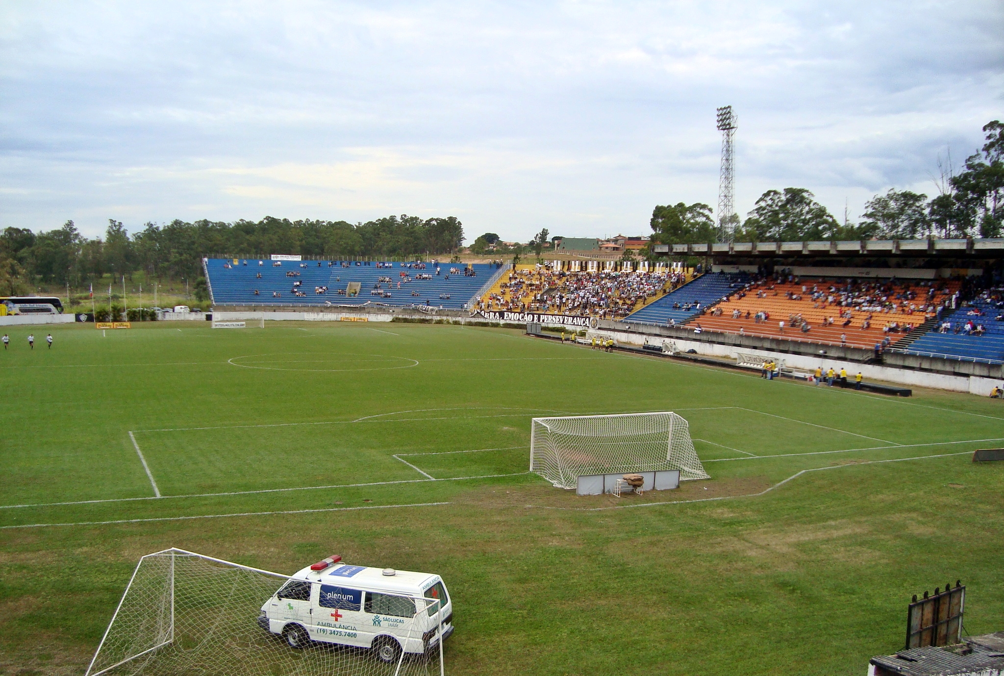 Partial view of Decio Vitta Stadium (Americana, SP, Brazil), just before the match between Rio Branco EC and São José EC, May 31st, 2009. The game ended 2x0 for the home team.